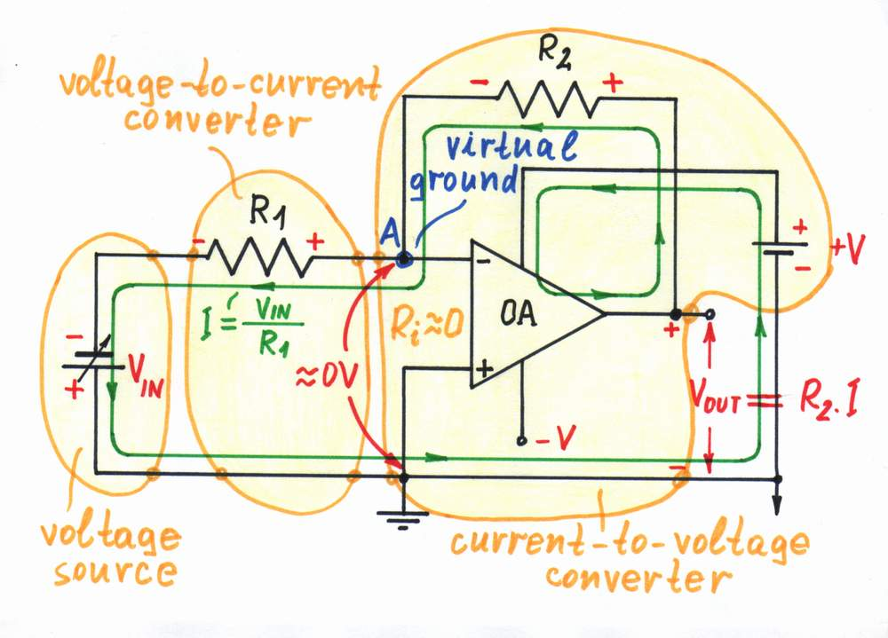 V-to-I converter as a part of an op-amp inverting amplifier